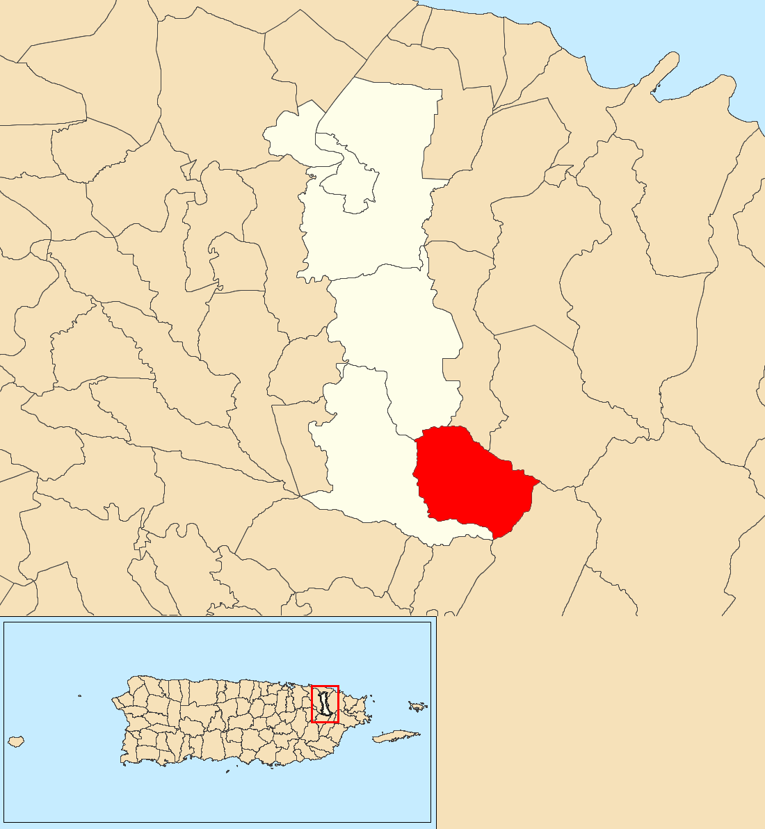 Cubuy, Canóvanas, Puerto Rico locator map